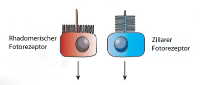 Fotorezeptorzellen